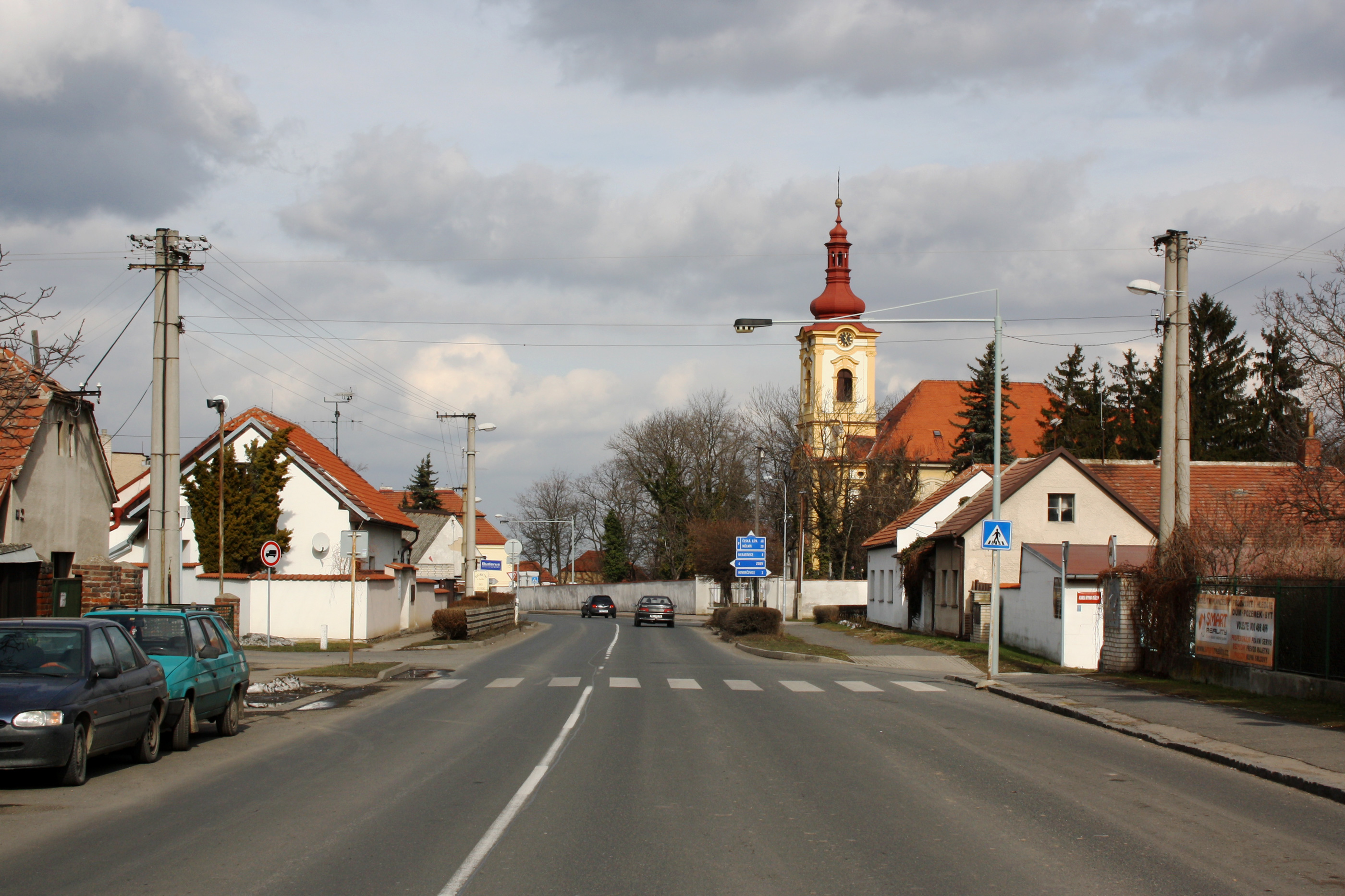 Restaurant by Mělnická street in Líbeznice, Czech Republic